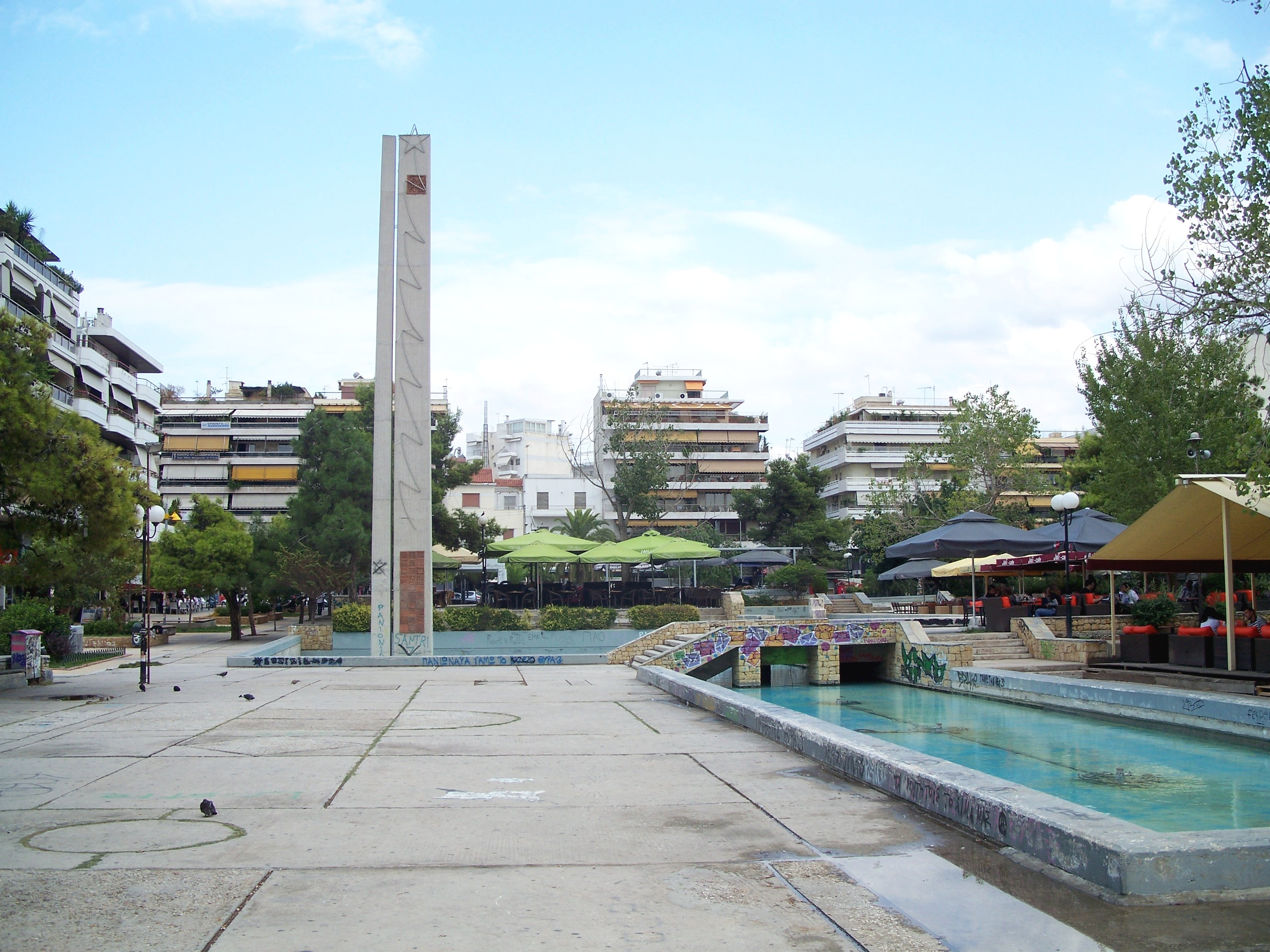 Central square of Nea Smyrni, Athens.